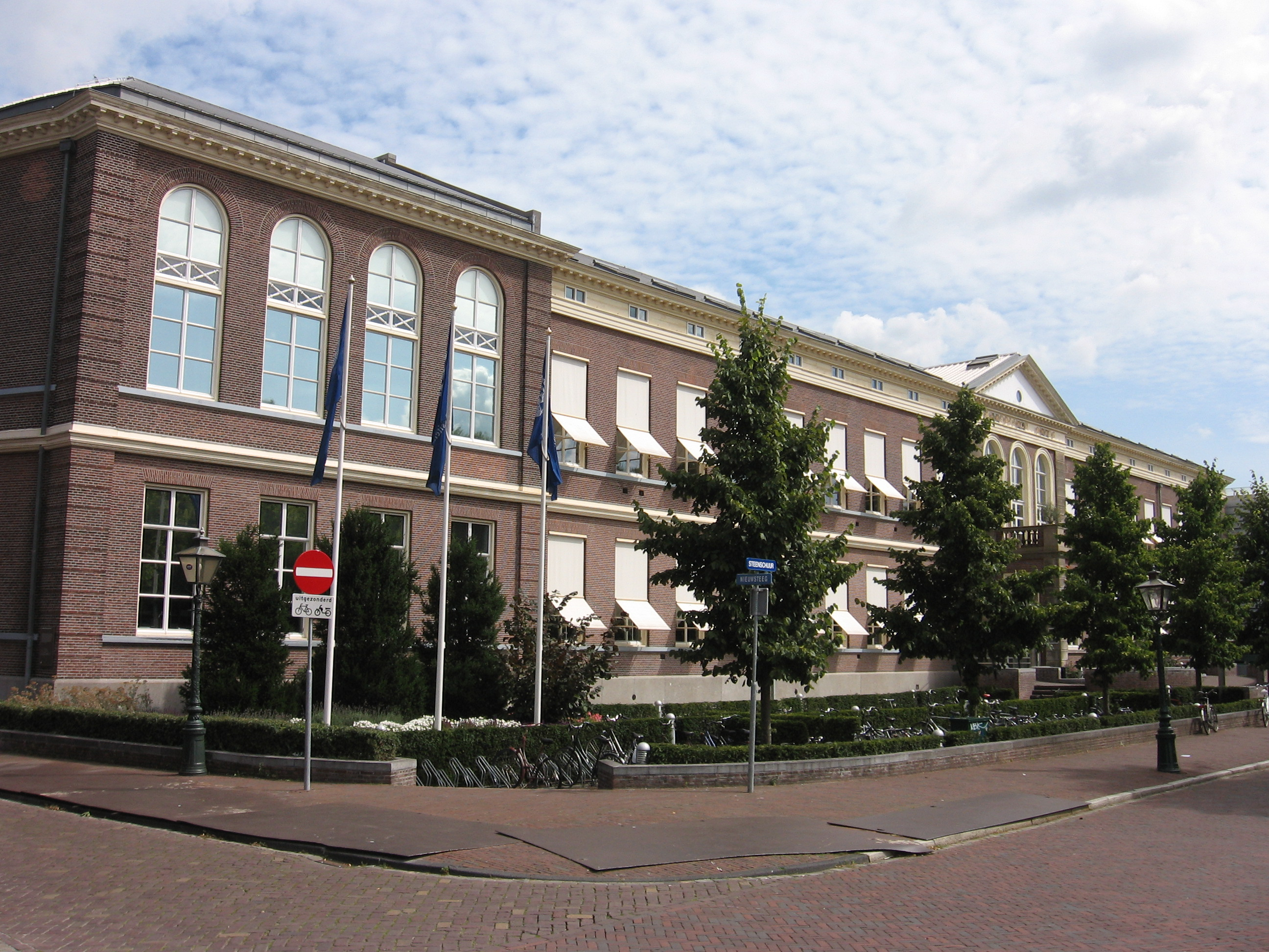 Kamerlingh Onnes Gebouw